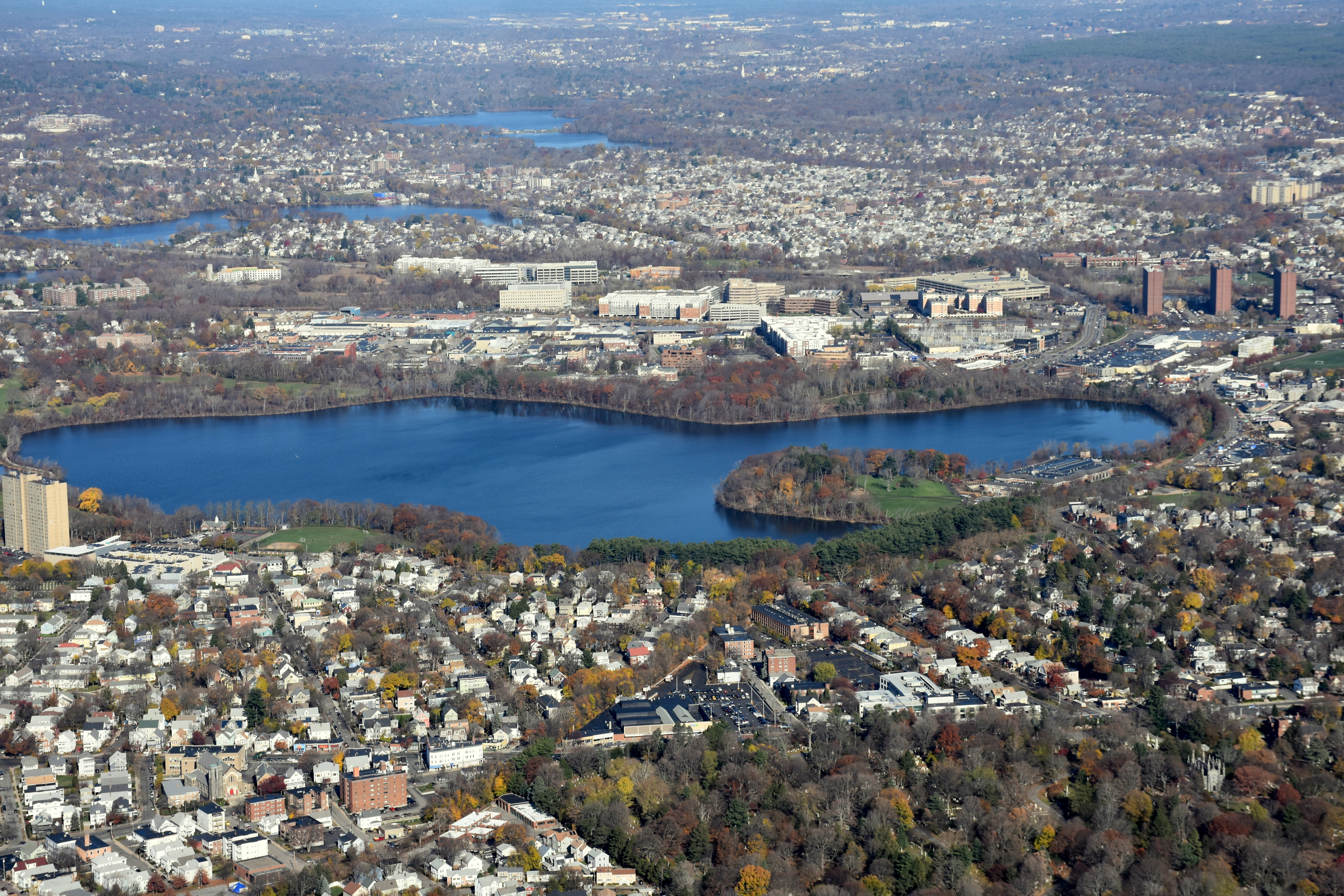 Aerial view from south of Fresh Pond in Cambridge, Massachusetts. Also visible are the Alewife Station (MBTA) and neighborhoods of Cambridge Highlands, Strawberry Hill, and Belmont, MA